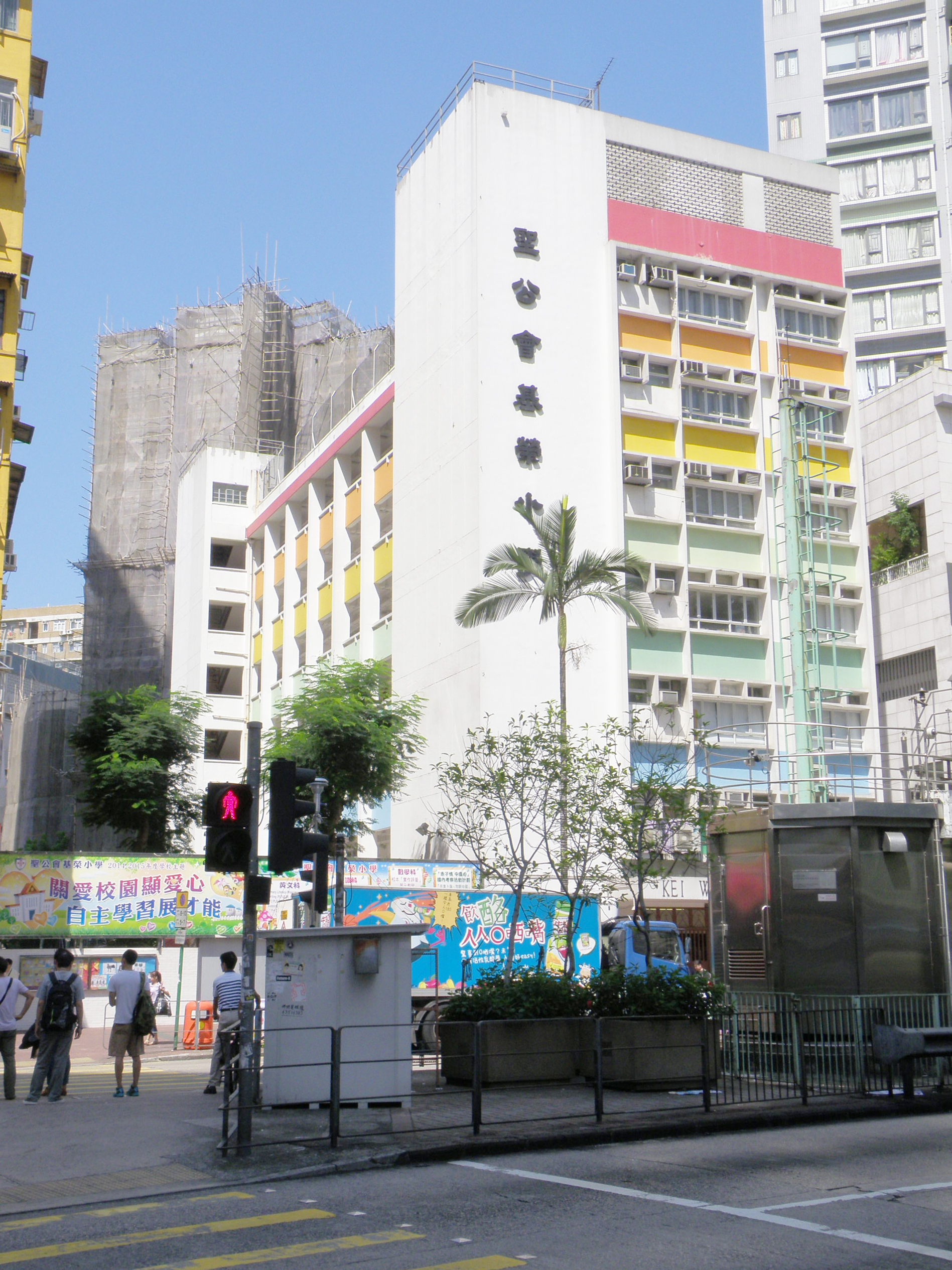 SKH Kei Wing Primary School in Prince Edward, Hong Kong.